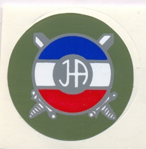 Helmet decal of the YPA, published on the 23rd October 1991 in the newsletter People's Army, it is the only logo of the YPA without a red star.